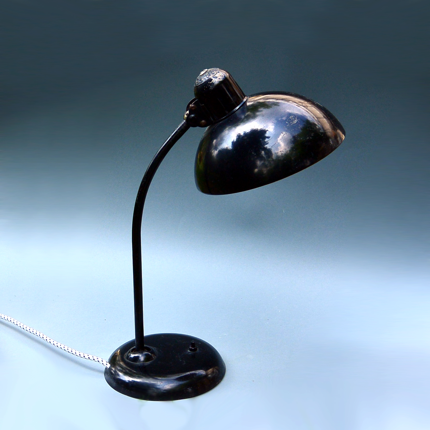 idell-Lamp designed by Christian Dell for Kaiser